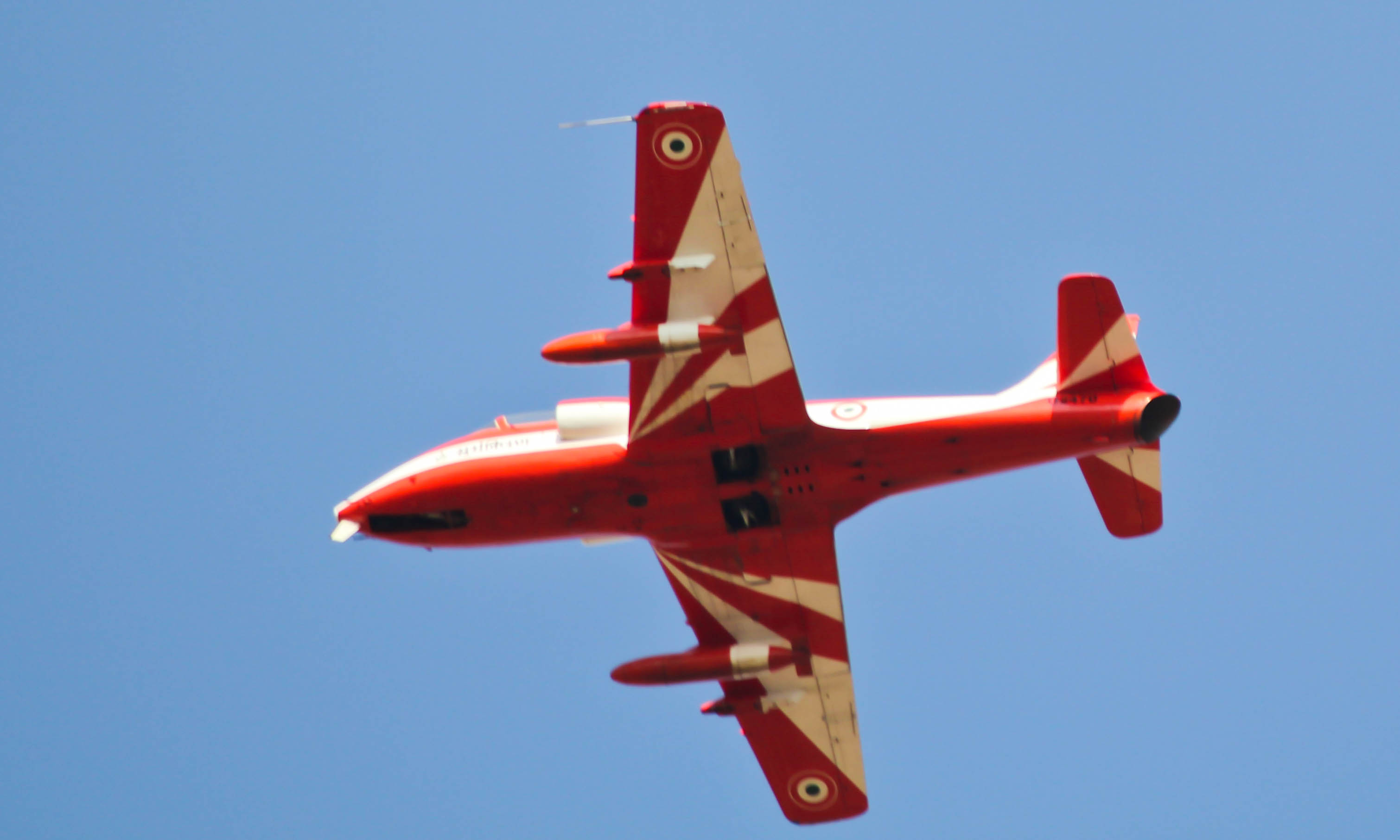 HJT-16 Kiran - Aero India 2011